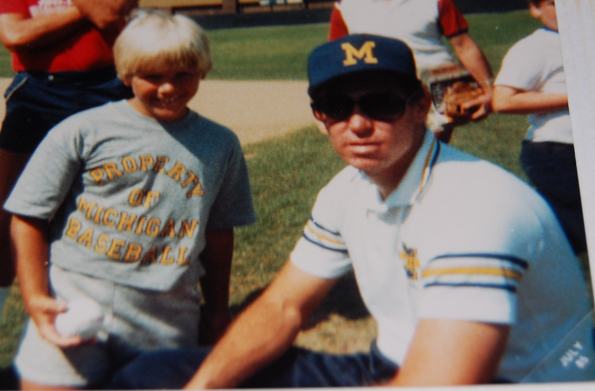 Alan Trammell at University of Michigan Baseball Camp, July 1985. Photo by Kay Koch.